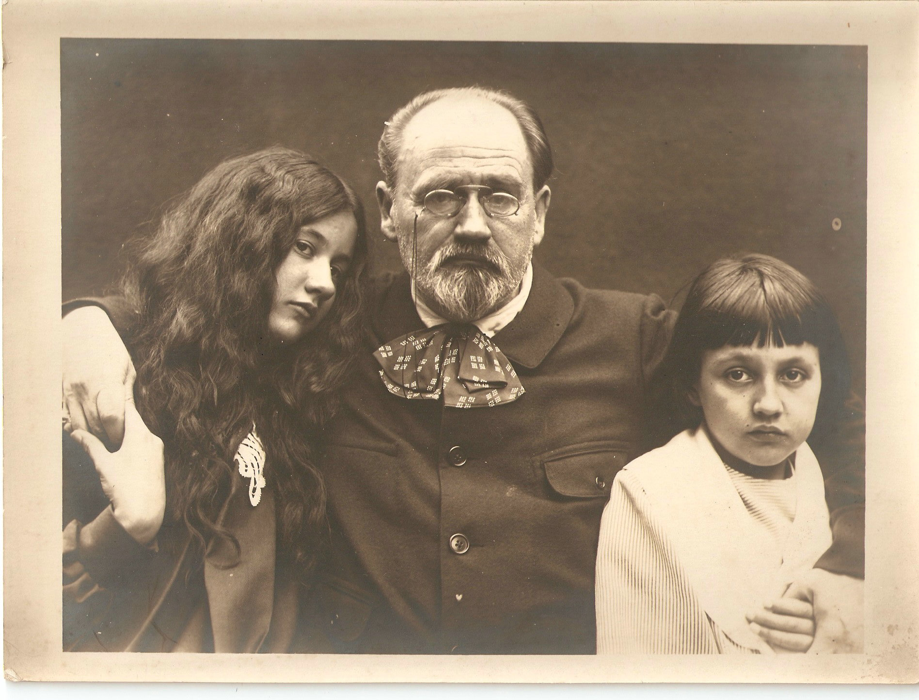 Emile Zola with its children Jacques et Denise